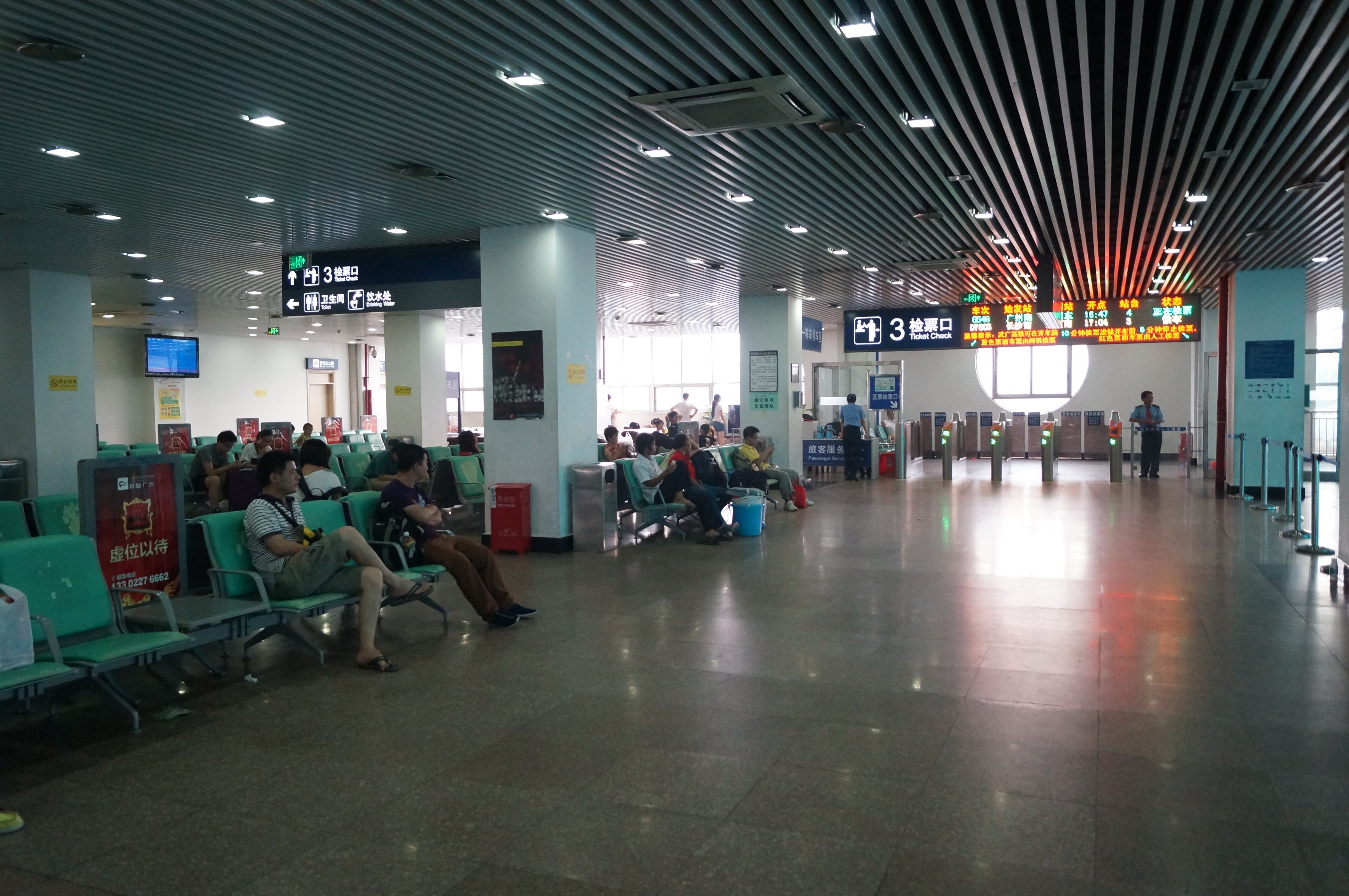 广州北站3进站口。